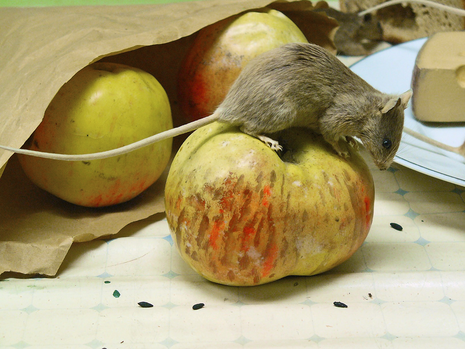 Mus musculus, Muridae, House Mouse; Staatliches Museum für Naturkunde Karlsruhe, Germany. The extremities, the tail and parts of the coat are used in homeopathy as remedy: Mus musculus (Mus-m.)